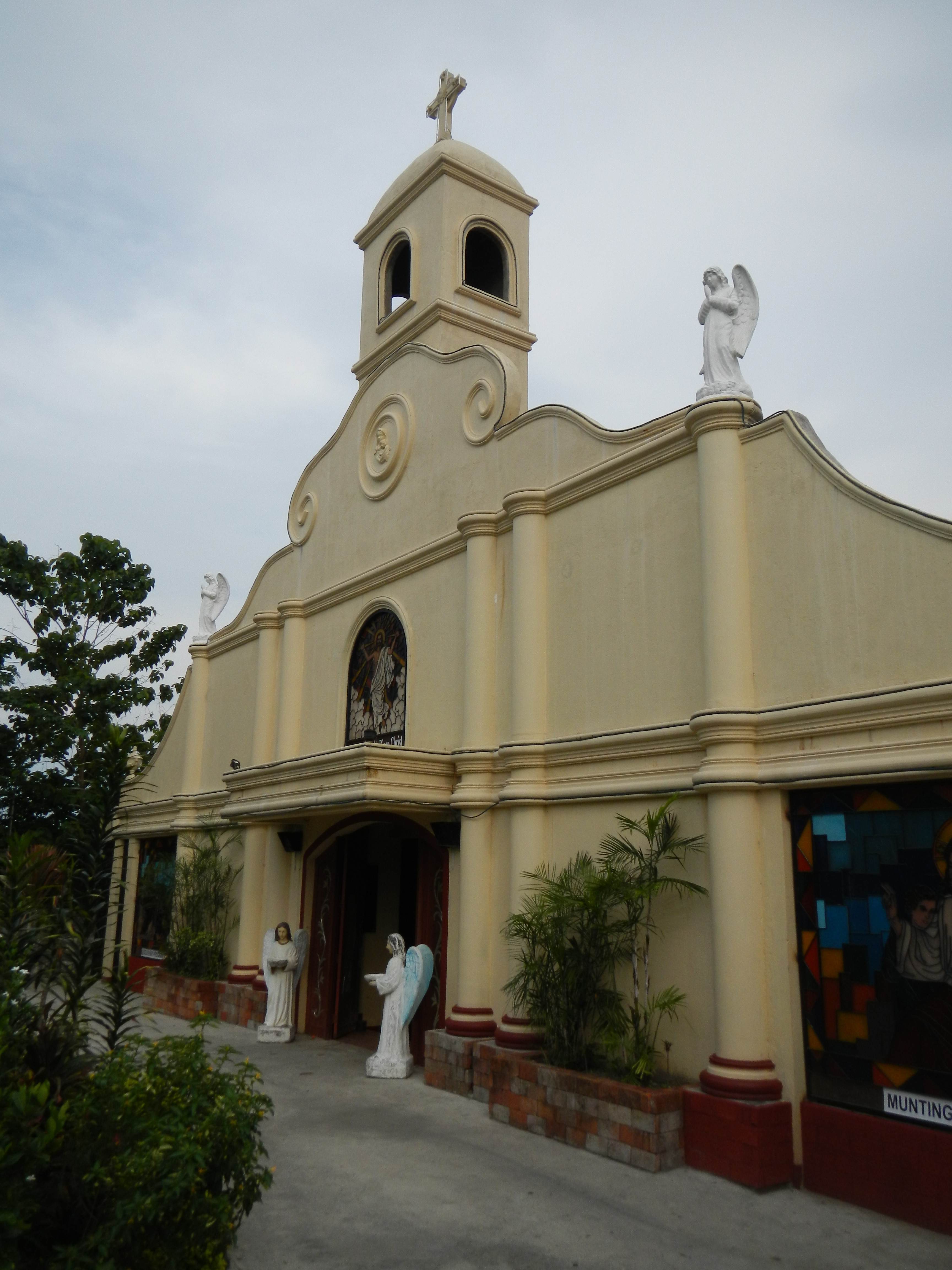 Original, raw/unedited and rarest photos of San Jose, Tarlac's main Church is the -- 1990 Immaculate Conception Parish Church of San Jose (F-1990): Mababanaba, San Jose 2700 Tarlac City, Philippines -Parish Priest: SRC Fathers[1] Vicariate of San Sebastian Vicar Forane: Father Rey Nedi S. Cardinoza[2] [3] [4] [5] It belongs to the Roman Catholic Diocese of Tarlac[6] --------San Jose, Tarlac [7] is a third-class municipality in the province of Tarlac,[8] Philippines. According to the 2010 census, it has a population of 33,960 people. It was created into a municipality pursuant to RA 6842; ratified on April 21, 1990; taken from the municipality of Tarlac City. San Jose is politically subdivided into 13 barangays. [9] Land Area: 397.30 km² ZIP Code: 2318 Coordinates: 15°25'46"N 120°21'15"E [10] [11] This place is situated in Tarlac, Region 3, Philippines, its geographical coordinates are 15° 29' 0" North, 120° 38' 0" East and its original name (with diacritics) is San Jose: Geographical location: Tarlac, Region 3, Philippines, Asia.[12] Monasterio de Tarlac - ---------[N.B. May 27, Monday, 2013 Photography of Rosario, San Jose, Tarlac [13] : 30% cloudy and 70% sunny weather using my Nikon AW 100 waterproof shockproof camera. From Bulacan at 10:05 a.m., I took photo at 12:52 pm of Tarlac City and reached TRP (Tarlac Recreational Park) of San Juan de Valdez, San Jose, Tarlac at 2:29 p.m. and finished photography of the town's landmarks at 4:18 pm then took photos of Tarlac Cathedral and Cory Aquino Monument at 5:31 p.m., and arrived at Bulacan at 9:10 pm after 4+ hours of travel by bus, and started uploading via slow internet at 9:40 pm - I hereby certify that these raw, original and unedited photos are exclusive for Commons and Wikipedia never uploaded in any Internet or any site, and for the public domain without any condition.]